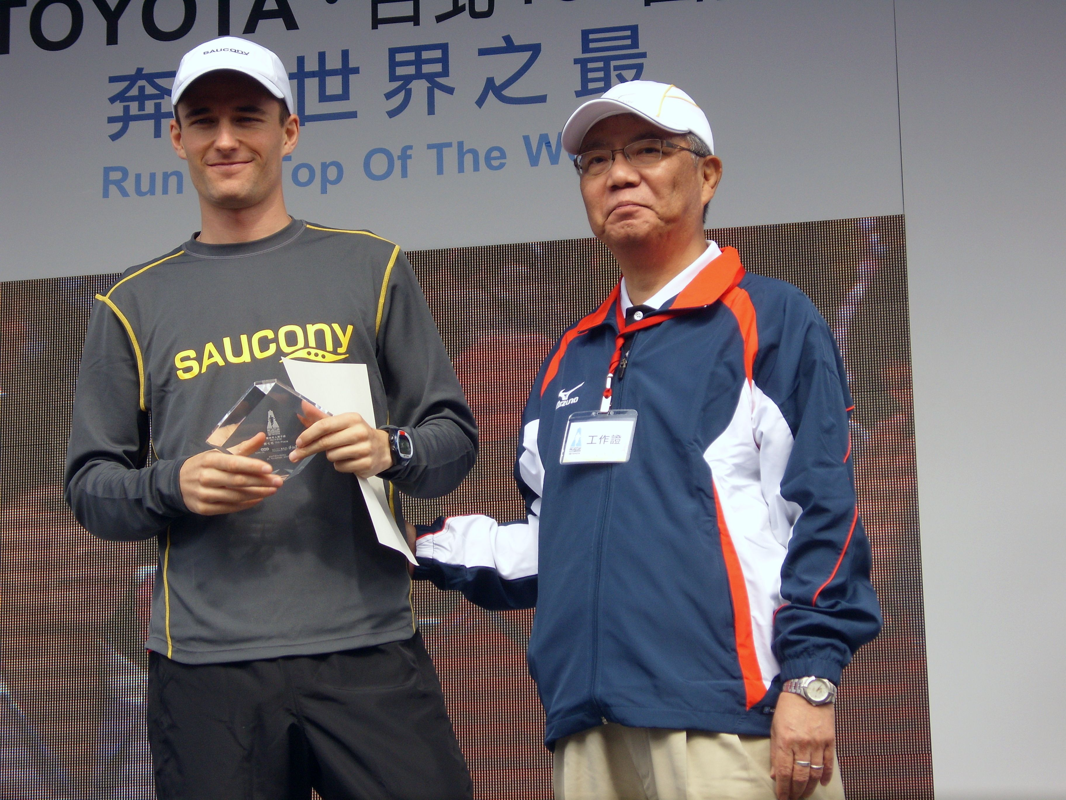 2007 Taipei 101 Run Up - Men's Elite Group: Troy De Haas, 7th Place.